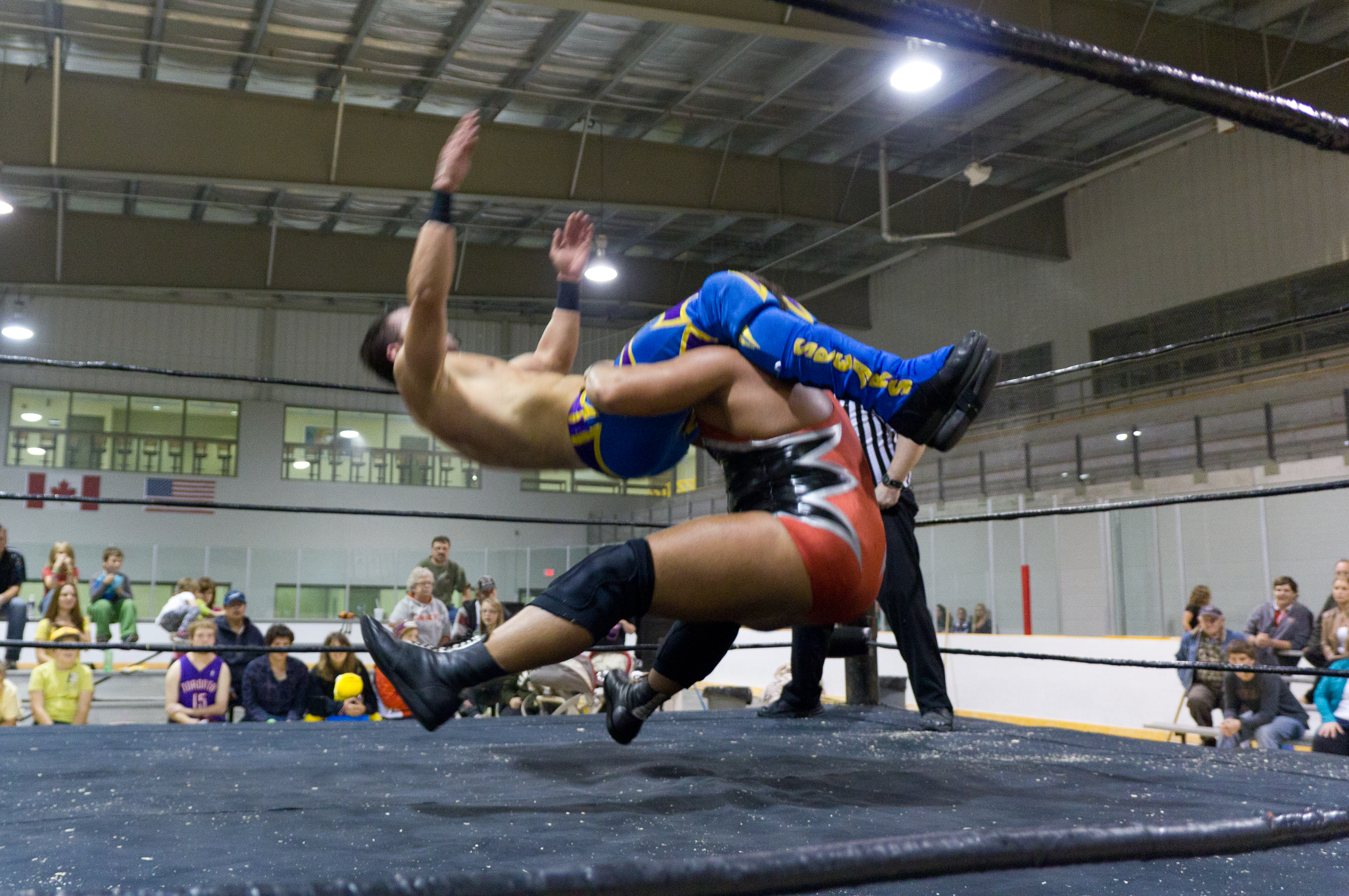 Michael Elgin using a sitout powerbomb on Shawn Spears in CCW, September 24 2011